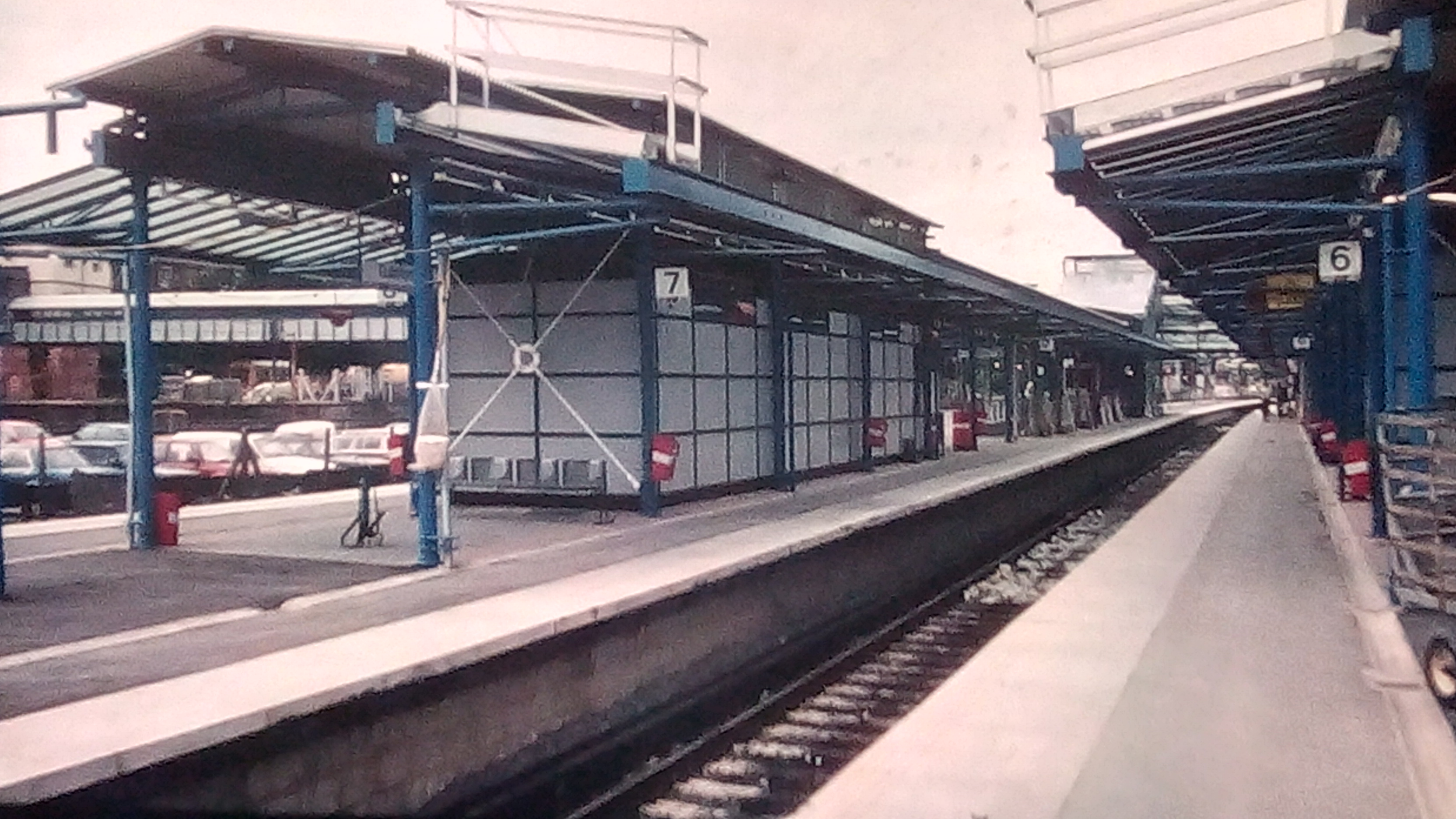 Guildford railway station as pictured in July 1989, looking north from Platform 6.